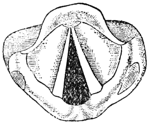 Vocal chords during expiration